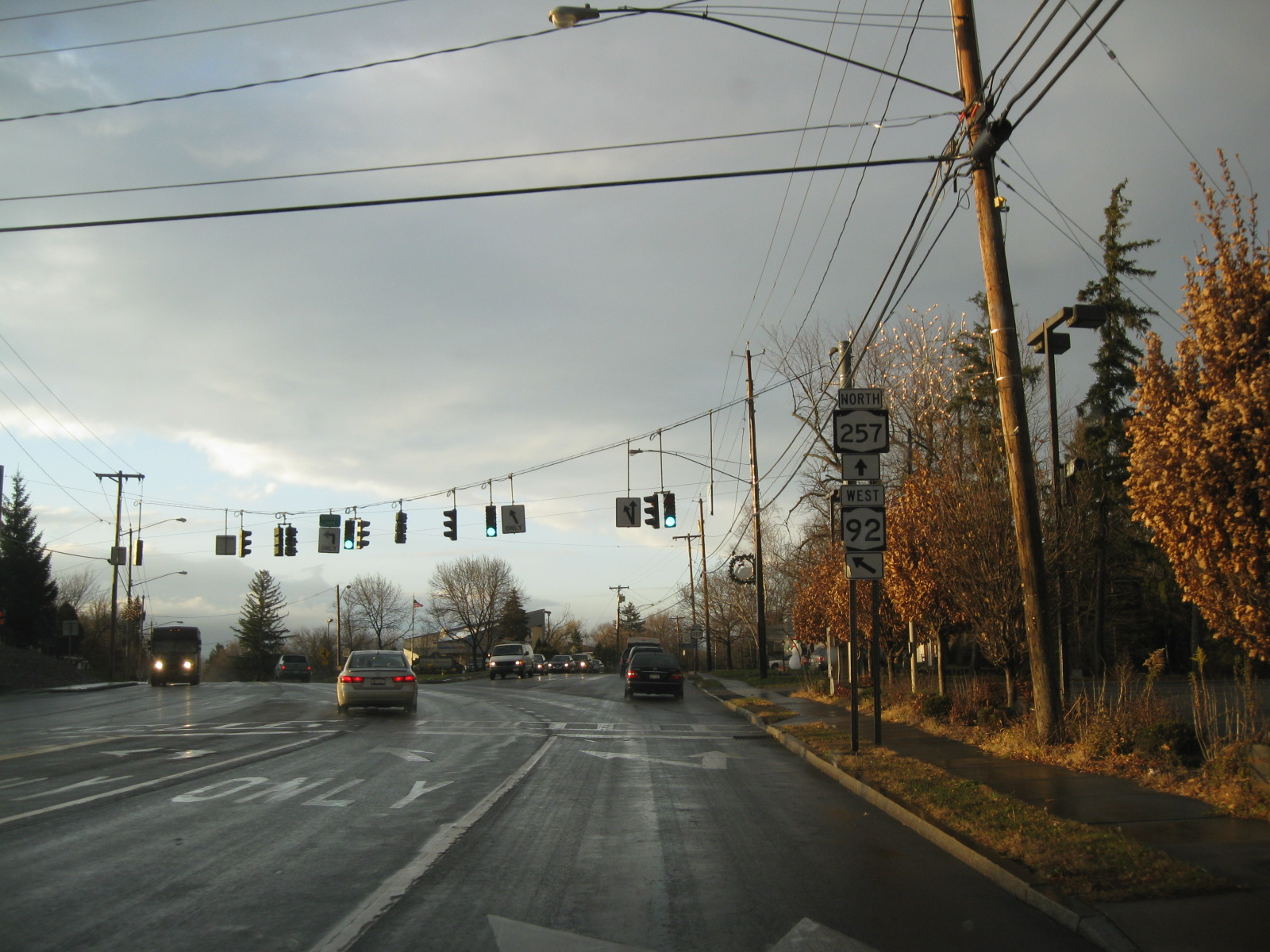 New York State Route 92 heading westbound at the intersection with New York State Route 257 in Manlius, New York.